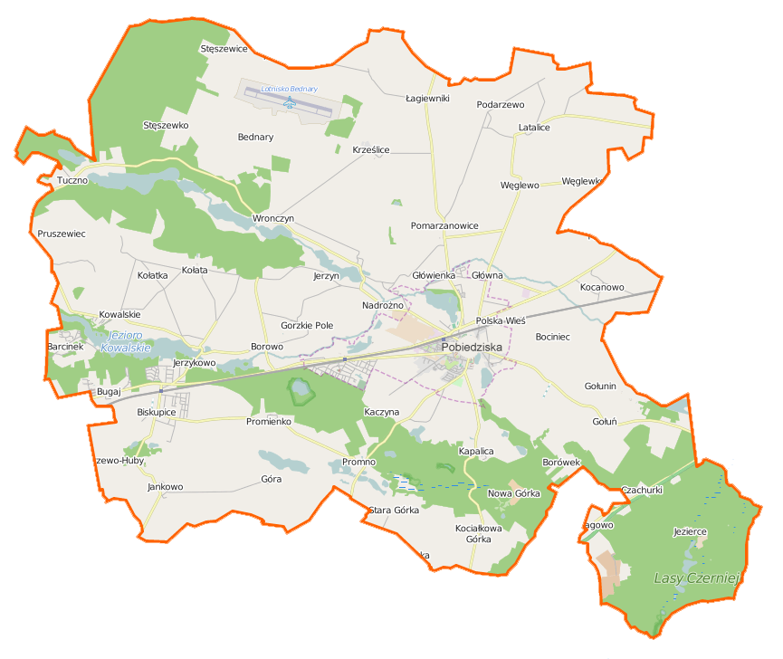 Map of Gmina Pobiedziska, Poland This map of Pobiedziska (gmina) was created from OpenStreetMap project data, collected by the community. This map may be incomplete, and may contain errors. Don't rely solely on it for navigation. Border coordinates52.557217.1095←↕→17.406252.4051